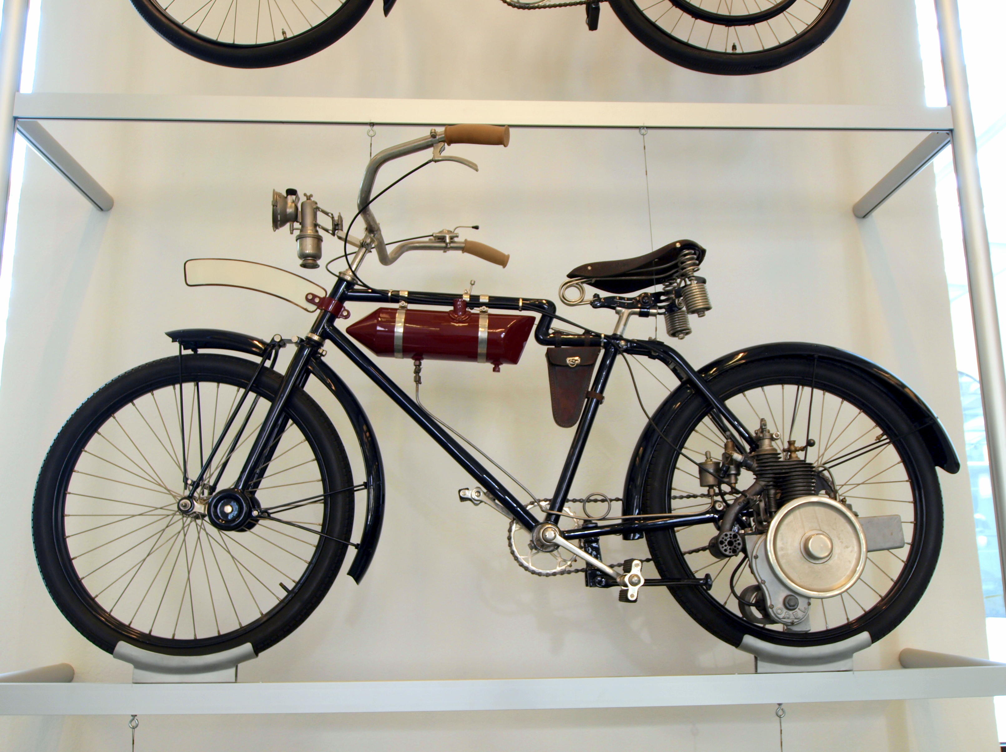 Photo taken without a tripod (was not permitted!) Herren-Motorfahrrad Opel.